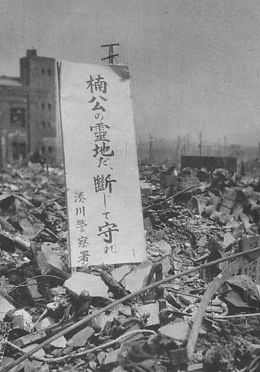 Kobe after the 1945 air raid